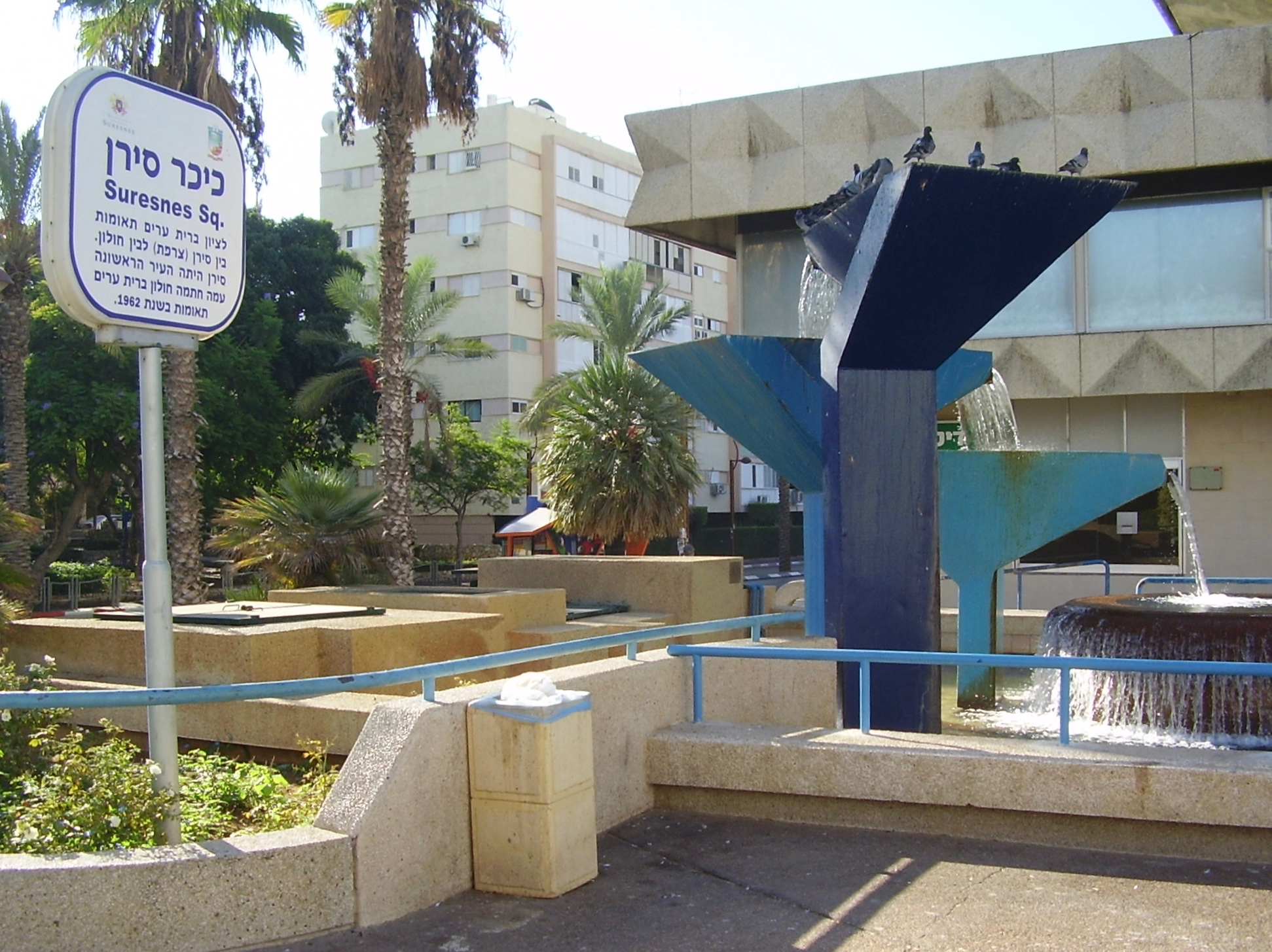 suresnes sq. in holon